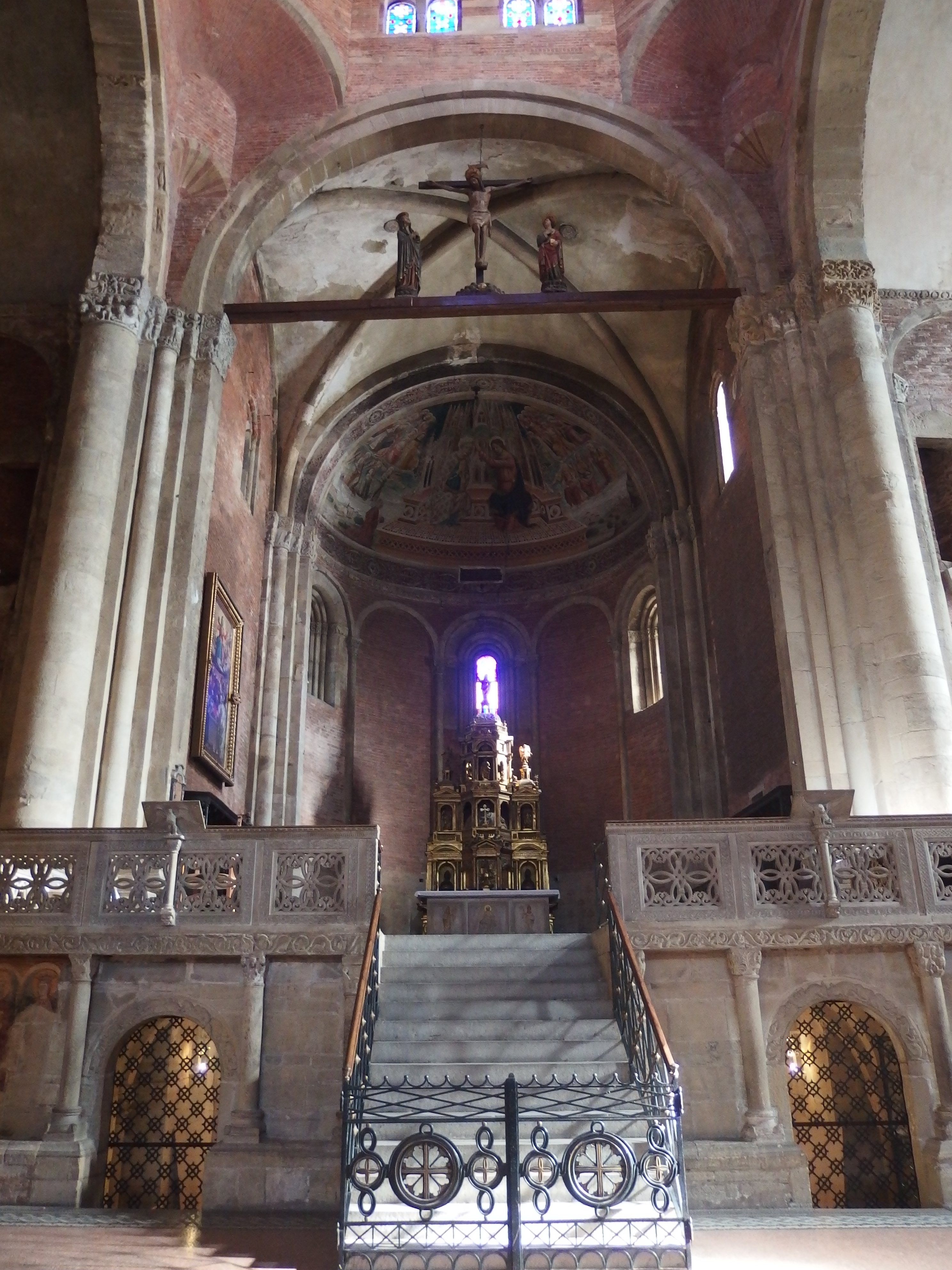 Pavia, Italy. Church San Michele, altar.